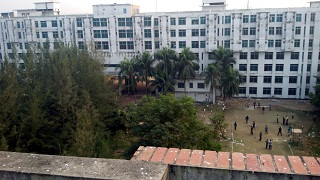 Eastern Medical College, Cobila, Comilla, Bangladesh. Chittagong Highway